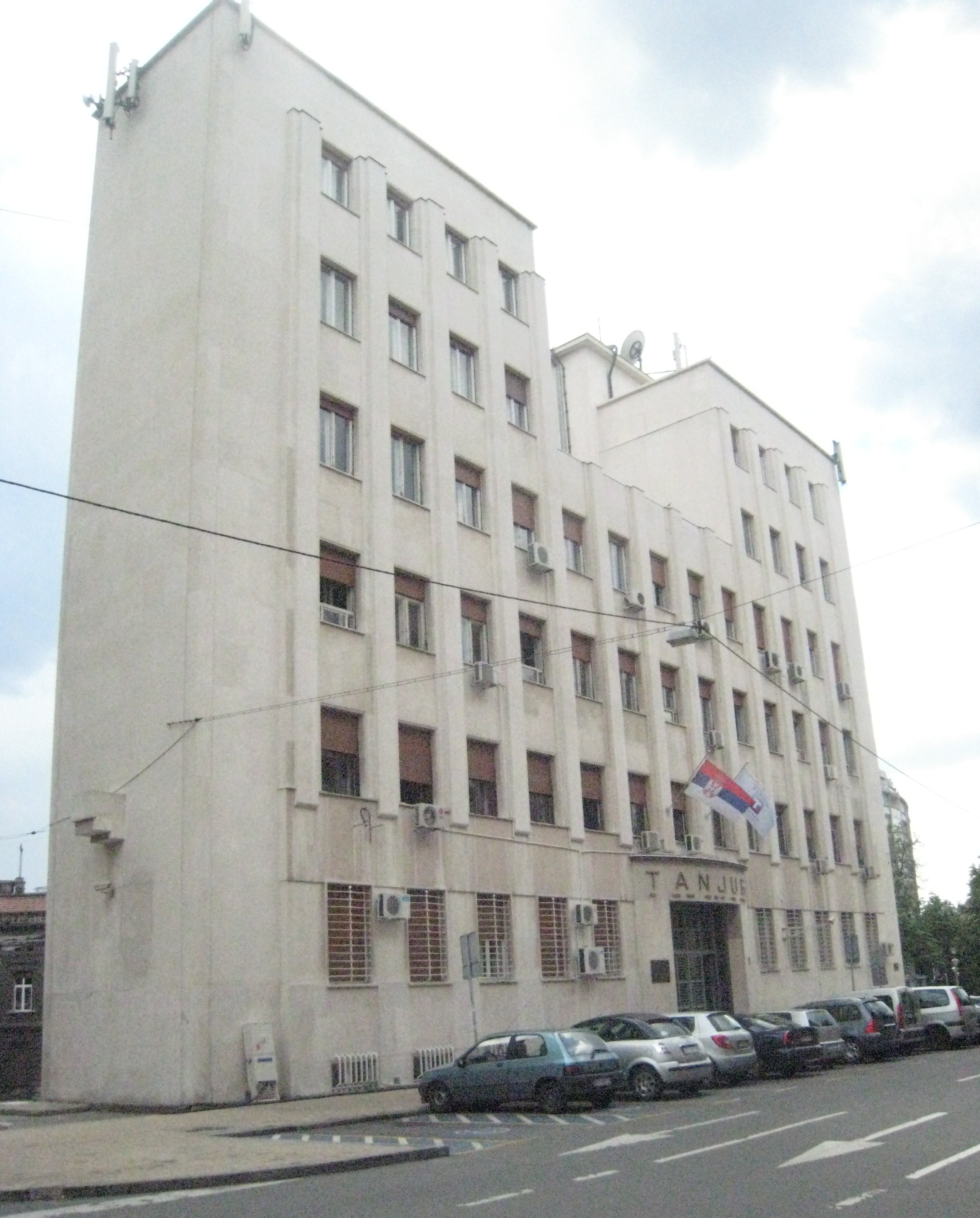 Serbian News Agency Tanjug head-quarters in Belgrade